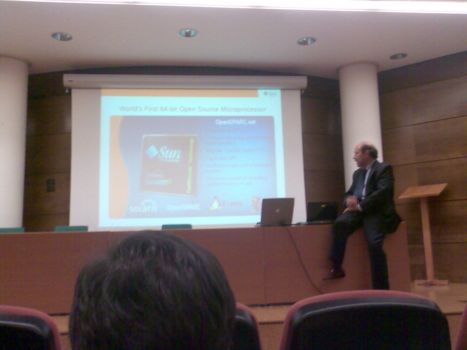 SUN OpenSolaris and OpenSPARC conference in Universidad de Alcala (UAH), Madrid, Spain.